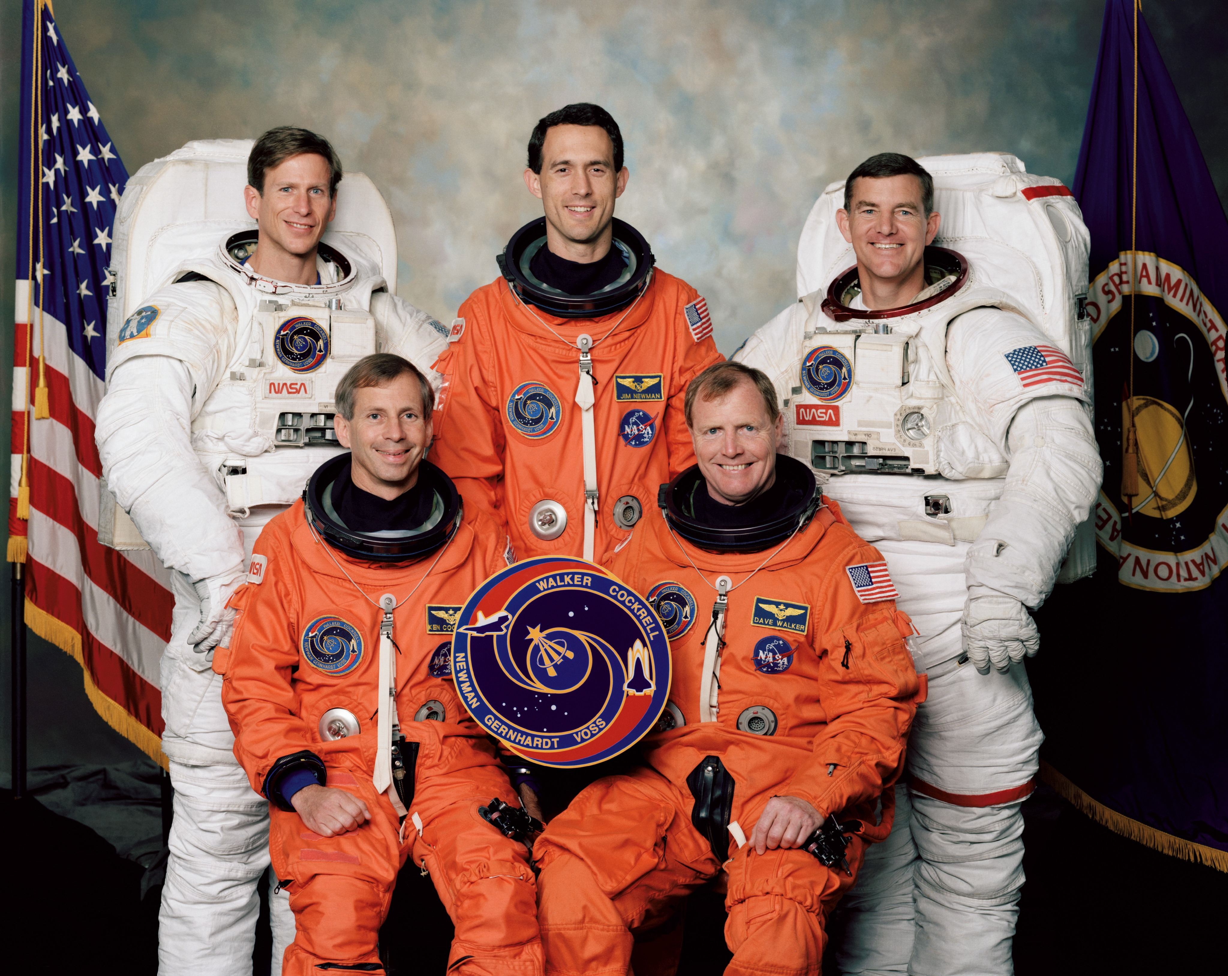 Crew of the Space Shuttle mission STS-69. NASA photo STS069-S-002. David M. Walker (right front) mission commander; with Kenneth D. Cockrell (left front) pilot. On the back row are (left to right) Michael L. Gernhardt and James H. Newman, both mission specialists; and James S. Voss, payload commander.